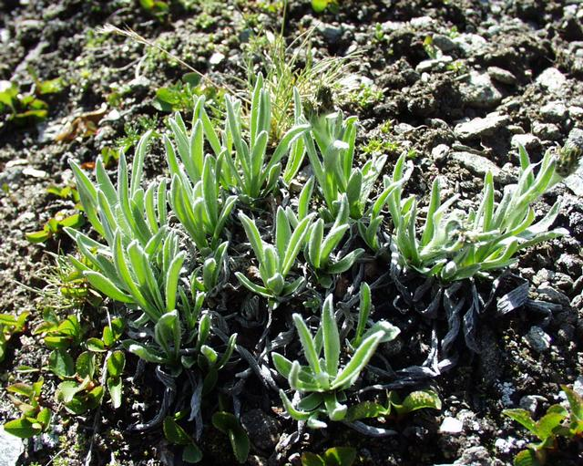 (en) Antennaria carpathica, a photography originating of the internet site The accord of the autor, H. Brisse, is here. (fr) Antennaria carpathica, une photographie issue du site internet L'accord de l'auteur, H. Brisse, se situe ici.